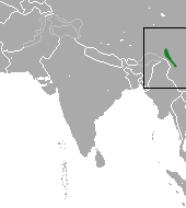 Black Snub-nosed Monkey (Rhinopithecus bieti) range